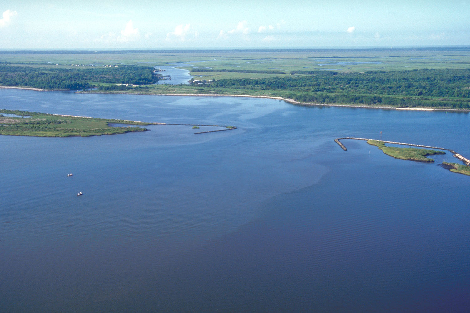 The Mississippi River-Gulf Outlet canal and an outlet from the canal into Lake Borgne, which is a sound on the Gulf of Mexico. The outlet in this photograph is approximately 50 miles (80 km) up the canal from the mouth of the canal into the Gulf and approximately 15 miles (24 km) (straight line) east of New Orleans. This picture is dated 1999, and later satellite photos show a considerable widening of the outlet since that date.